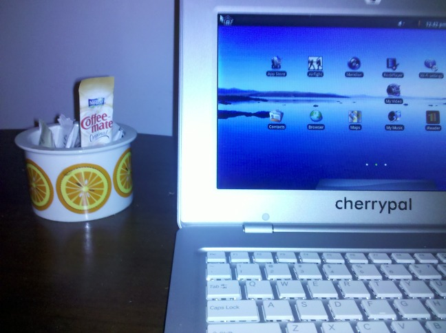 picture of Cherrypal Asia large model